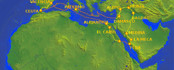 Map of voyage by Spanish traveler Ibn Jubair in the 12th century AD